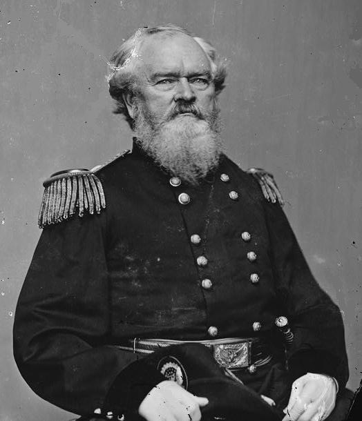 Eaton, Gen. A.B.